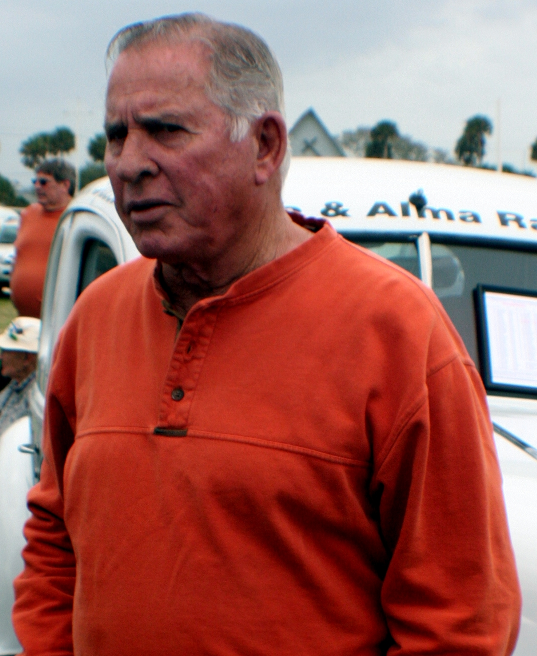 A crop of a flickr image of David Pearson taken in Daytona. Shot by "The Daredevil" at Daytona during Speedweeks 2008